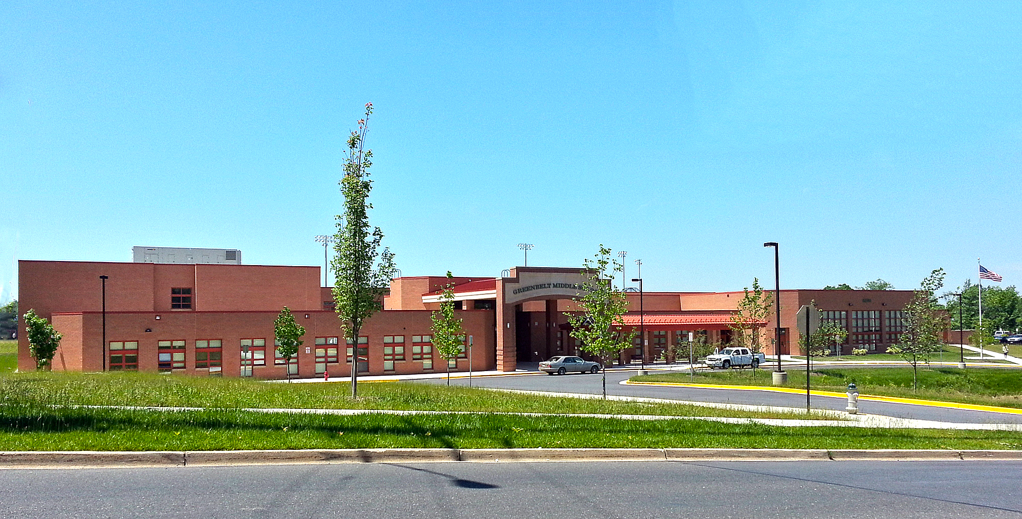 The new $32 million USD, 143,277-square-foot, 990-student, LEED certified Greenbelt Middle School, which opened in August 2012. The total project cost $53.6 million USD.